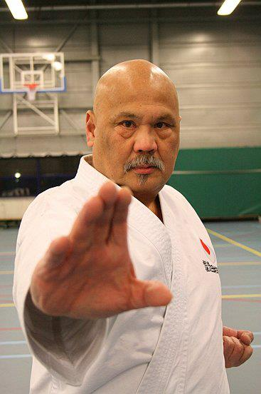 sensei Peter Wewengkang